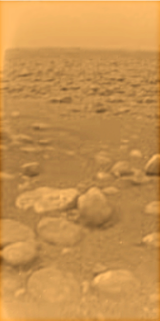 Image of Titan's surface taken by the Huygens probe on 14 January 2005.